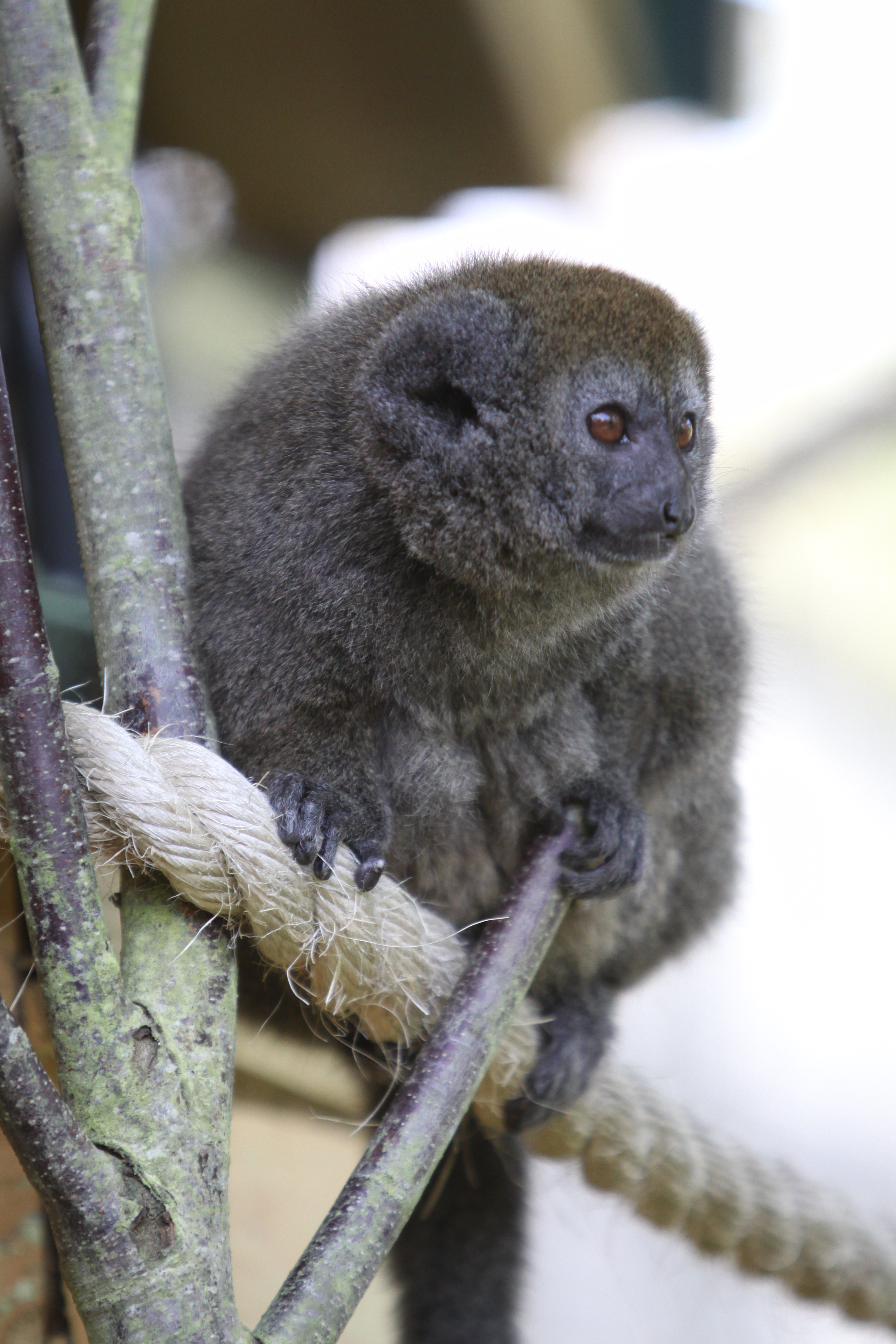 Lac Alaotra bamboo lemur (Hapalemur alaotrensis) at Durrell Wildlife Park (Jeresy)